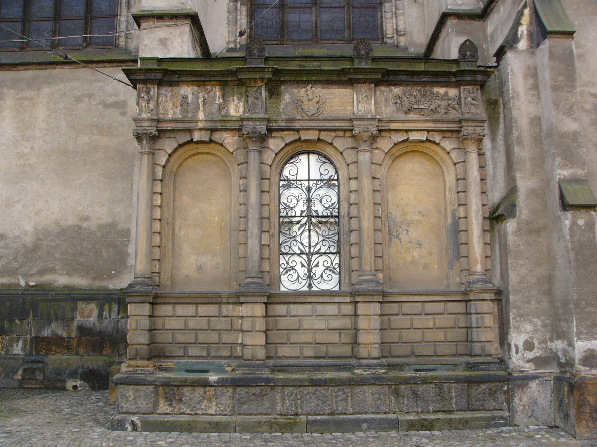 Tomb of Václav Edelmann from Brosdorf at northern side of St. Moritz Church in Olomouc (Czech Republic).